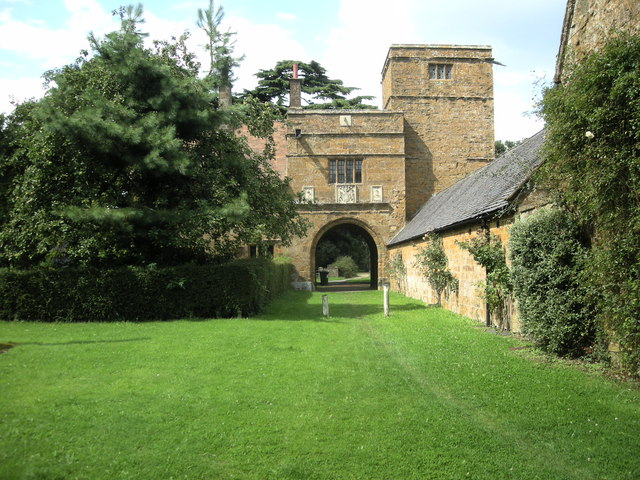 Wormleighton Manor, Wormleighton, Warwickshire, England. The imposing gateway to this medieval manor.